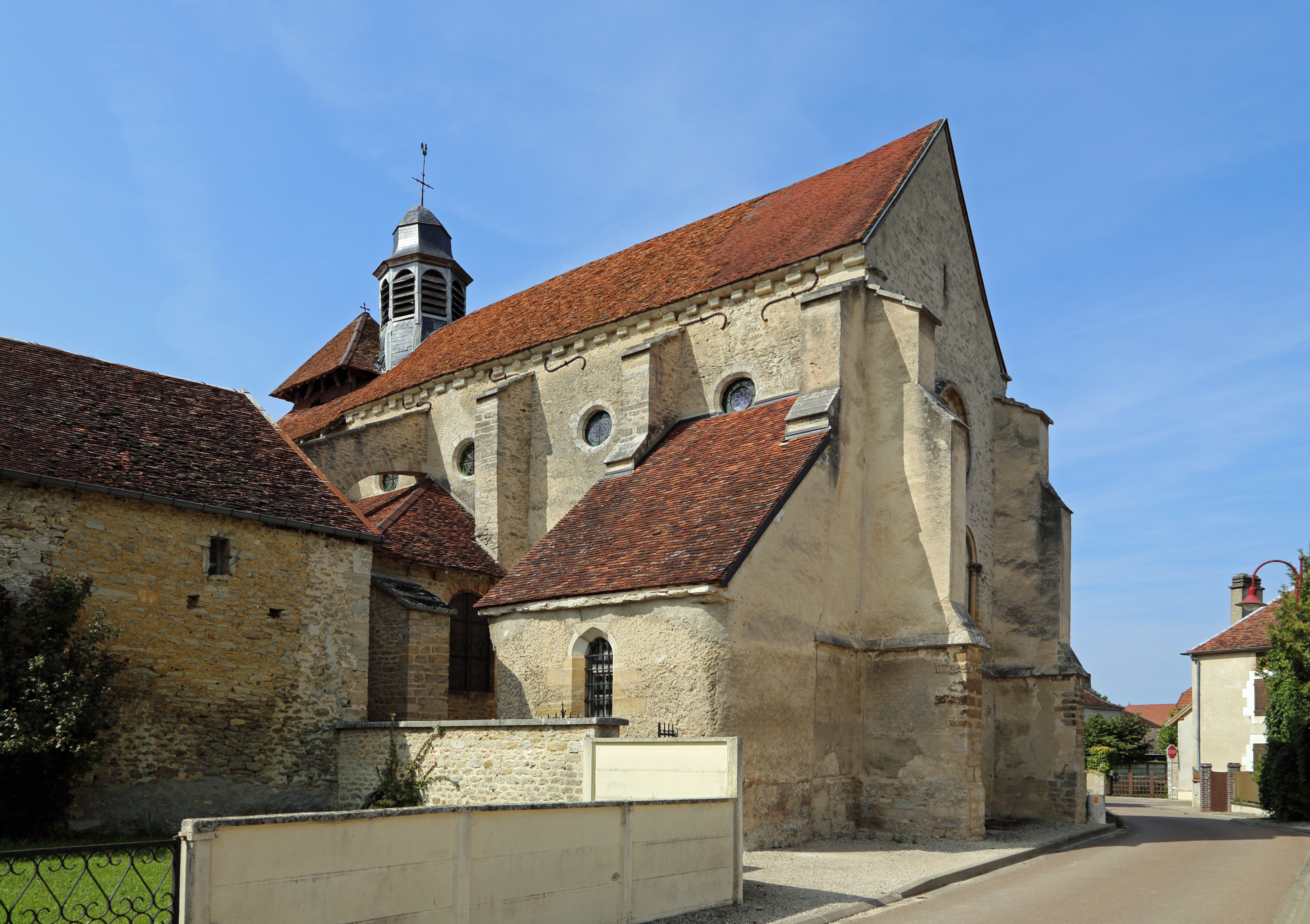 Fouchères (Aube department, France): Nativity of the Blessed Virgin church (église de la Nativité-de-la-Sainte-Vierge)